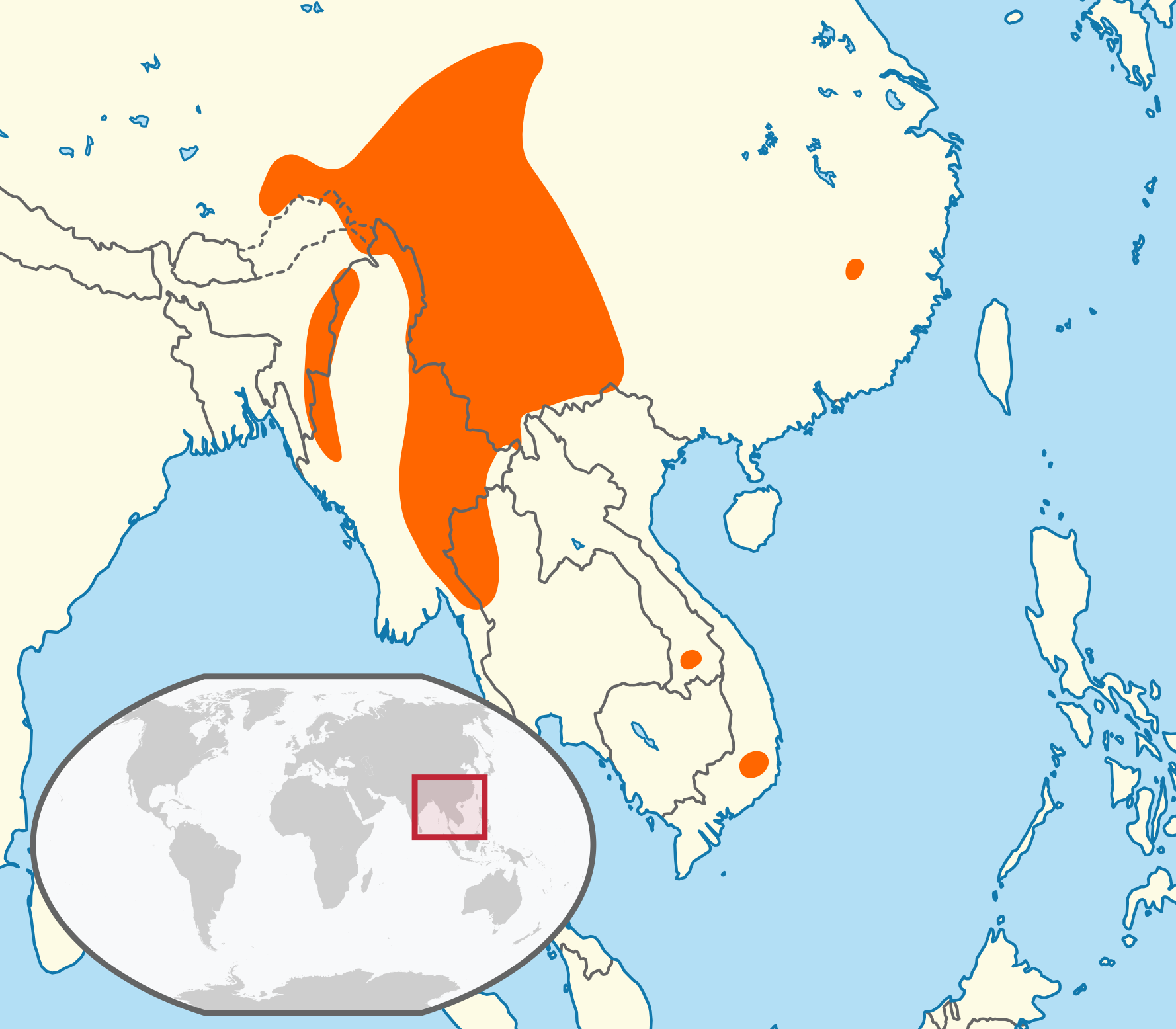 Chestnut-vented Nuthatch distribution according to UICN (as in 2014-2017)